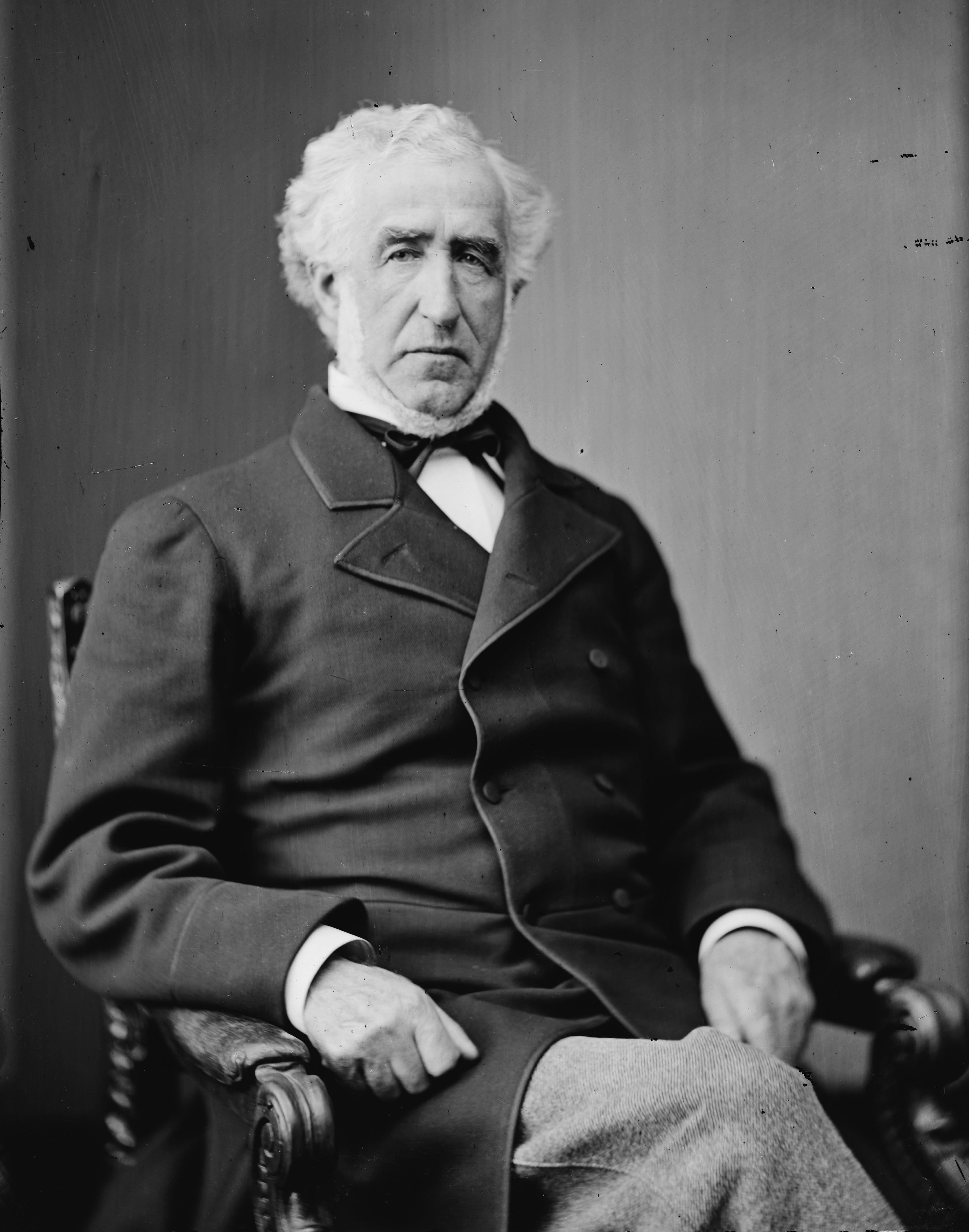 Francis Kernan. Library of Congress description: "Hon. Francis Kernan of New York"